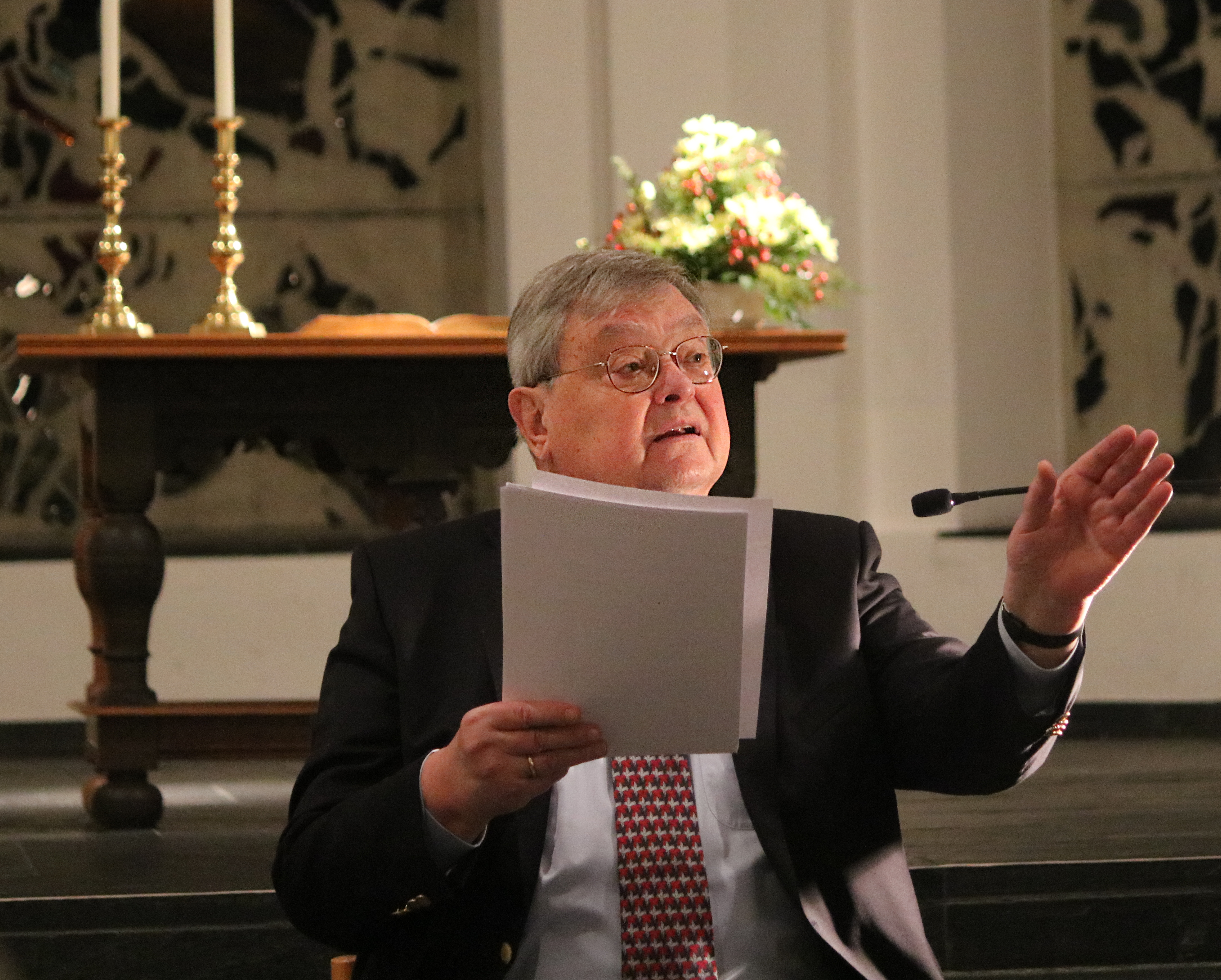 Nico ter Linden reading the story "Josef, the dreamer" from his book in the Christuskirche in Mönchengladbach, Germany 18.11.2016